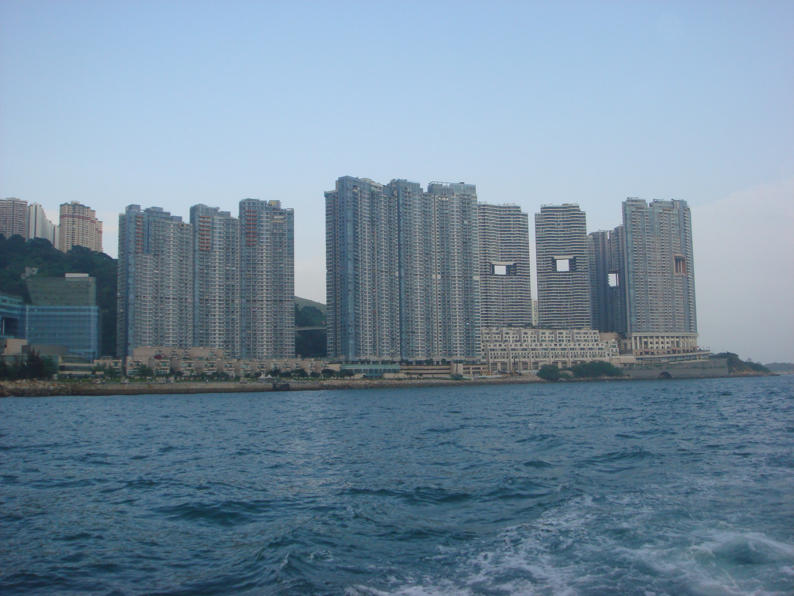 Residence Bel-Air, Hong Kong